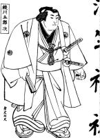 Ayagawa Gorōji, the 2nd yokozuna